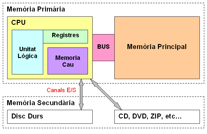 Computer memory schema